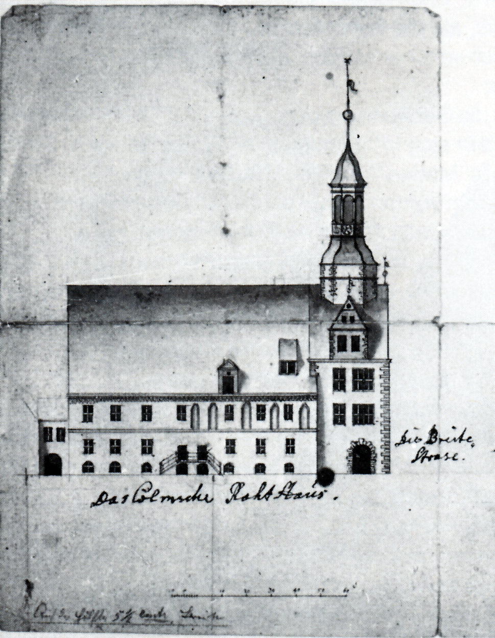 The Cölln Townhall, 1703